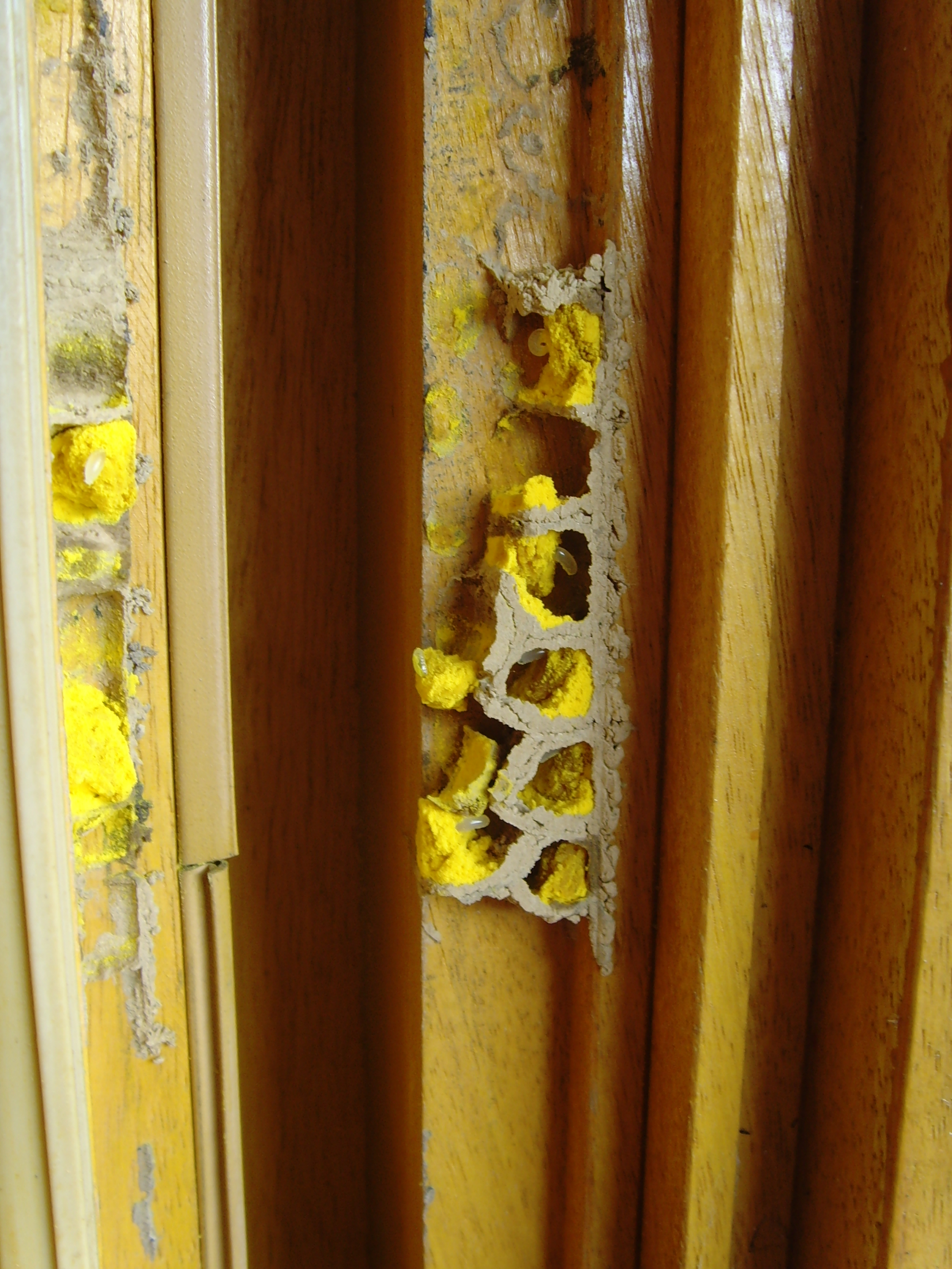 Osmia cornuta nest in window